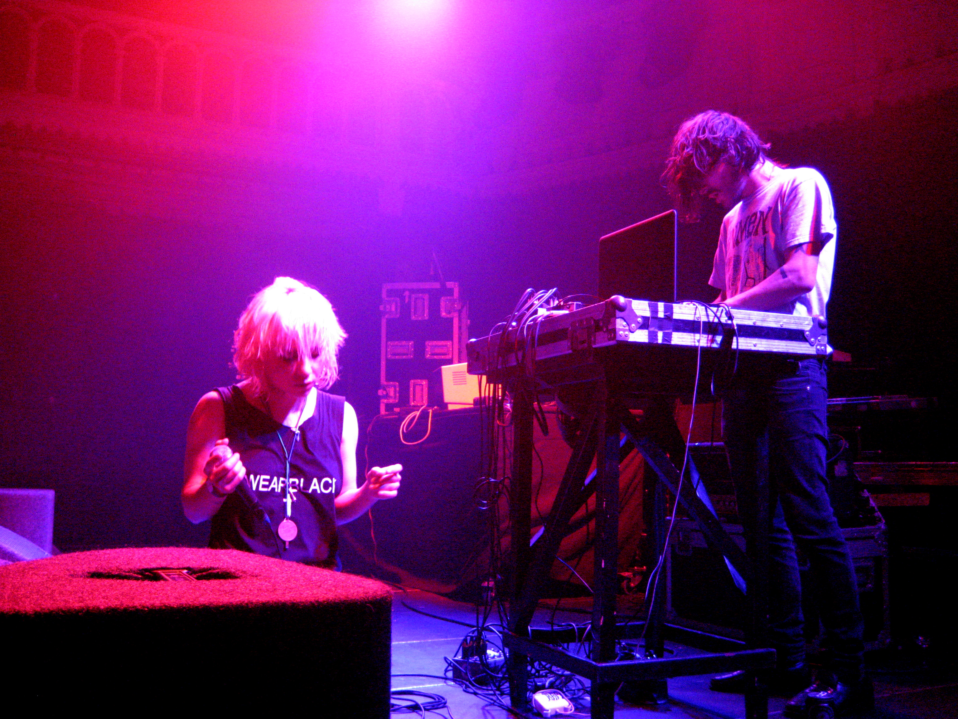 Kap Bambino, 2011.